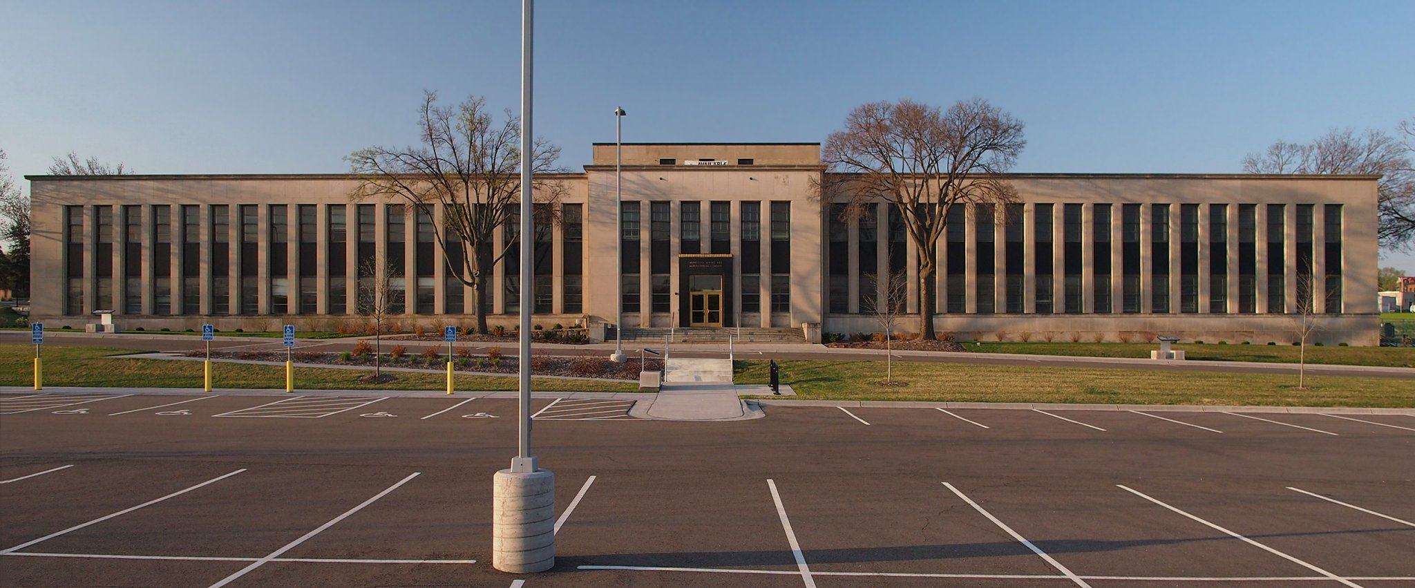 3M Administration Building, 777 Forest Ave, St Paul, Minnesota, USA. Viewed from the north.